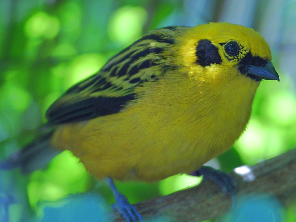 Golden Tanager (Tangara arthus)